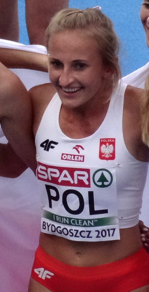 2017 European Athletics U23 Championships in Bydgoszcz Poland, 4x100m relay women final